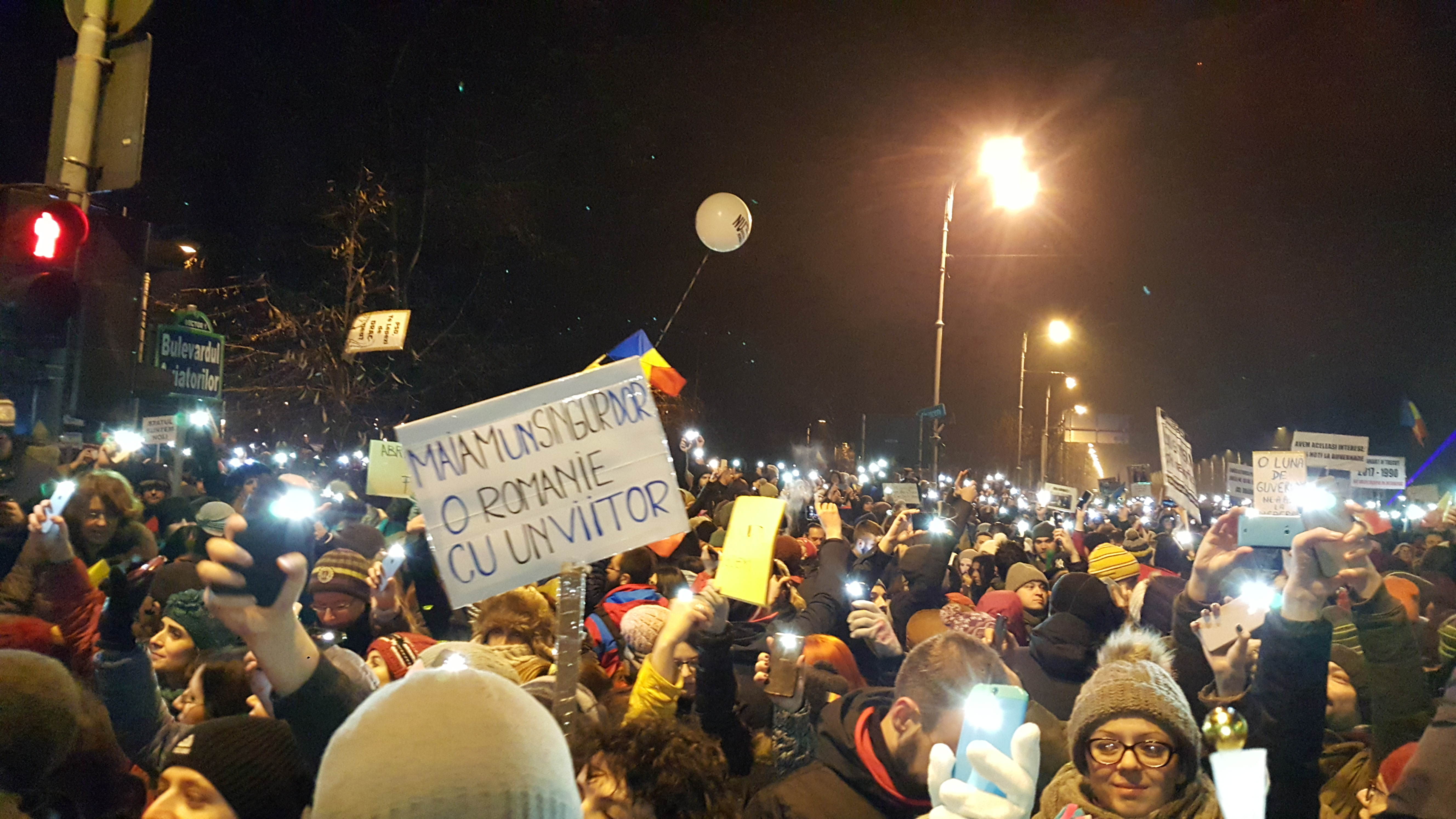 280000 people light their phones simultaneously in protests against ordinance bills that were proposed by the Romanian Ministry of Justice regarding the pardoning of certain committed crimes, and the amendment of the Penal Code of Romania (especially regarding the abuse of power).